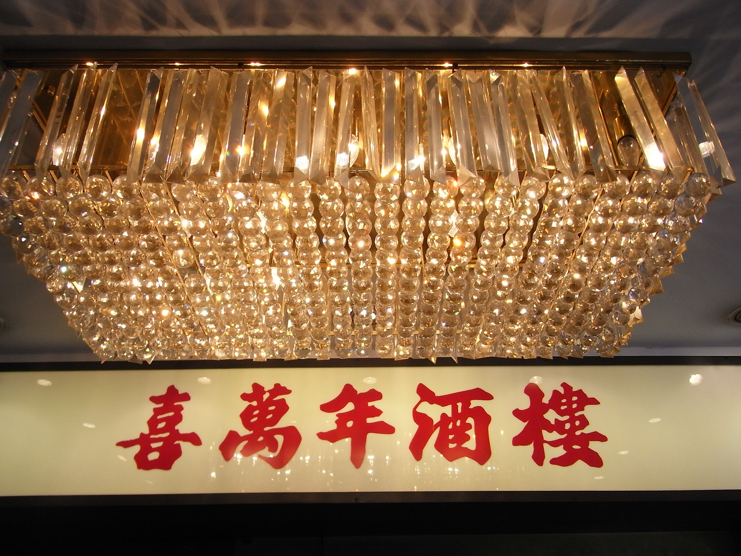 香港島 灣仔 熙信大廈, 喜萬年酒樓, Asian House, 1 Hennessy Road, Wan Chai, Hong Kong